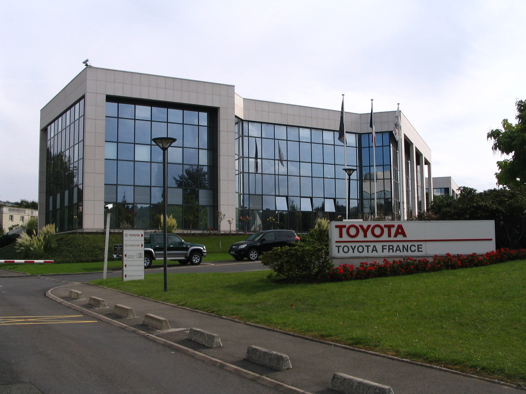 The headquarters of Toyota France, in Vaucresson, Hauts-de-Seine, France.